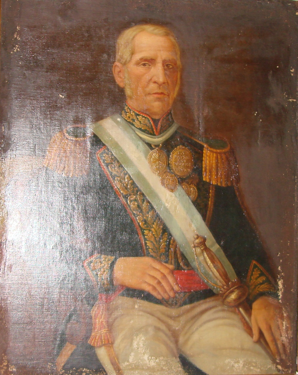 General Eustoquio Díaz Vélez